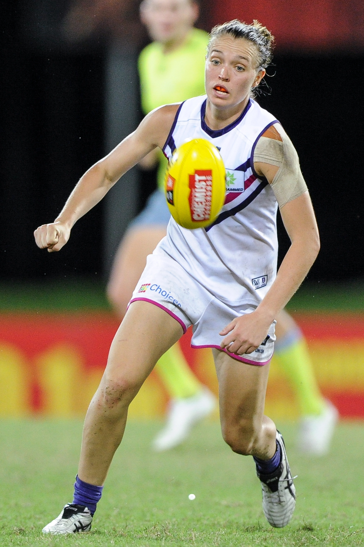 Ebony Antonio chasing the ball in the AFL Women's preseason match between the Adelaide Football Club and Fremantle Football Club on 20 January 2018 at TIO Stadium.